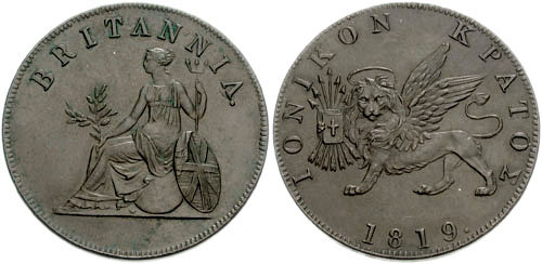 1 οβολός Ιονίων νήσων, 1819